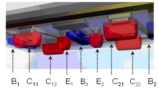 A design of a sensor based on two magnetotransistors with splitted collectors (B0, B1, B2 are bases, С11, С12, С21, С22 are collectors, E1, E2 are emitters)